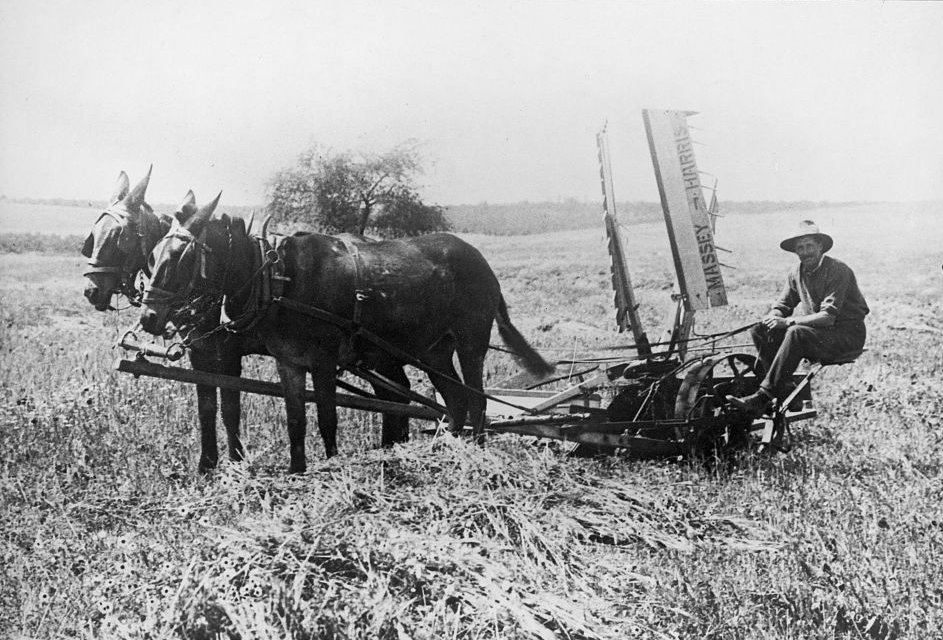 Palestine, Jewish farmer with modern machinery.